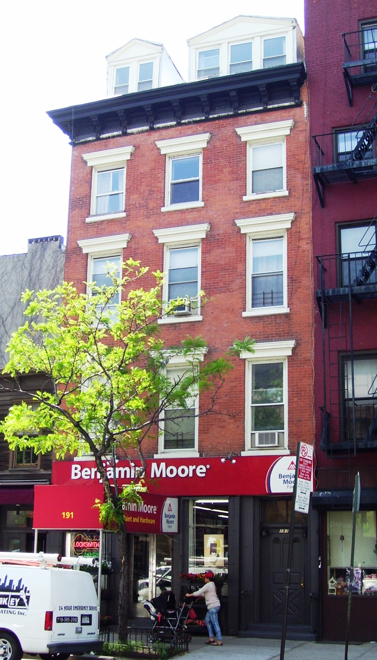 191 Ninth Avenue between 21st and 22nd Street in the Chelsea neighborhood of Manhattan, New York City, was built in 1900. (Source: NYC GIS map)